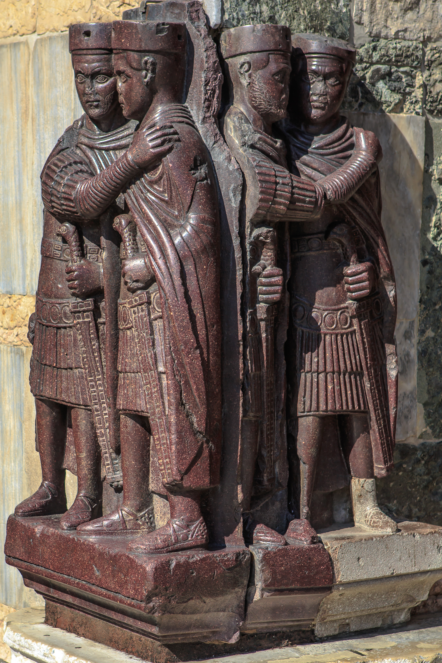 Venice city scenes...in St. Mark's square...St Mark's Basilica